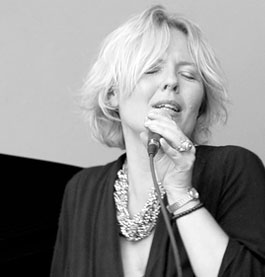 Katrine Madsen Appears to be taken at the 2012 Aarhus Jazz Festival.[1]